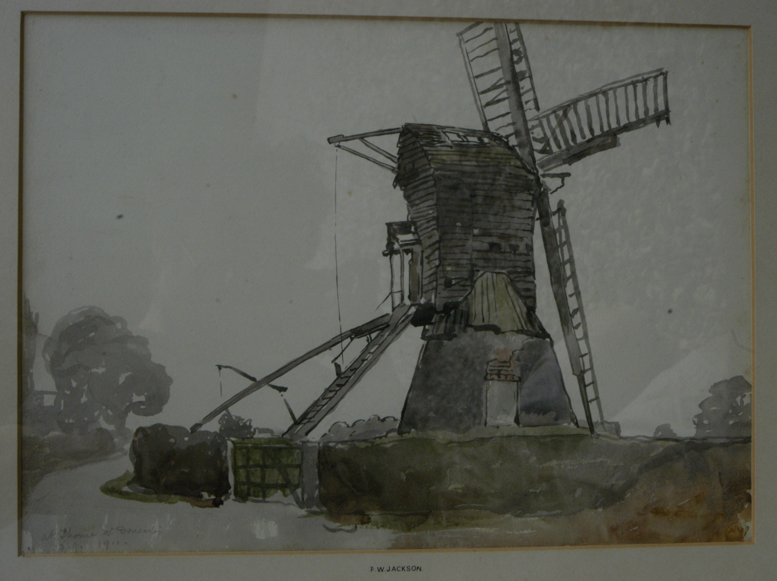 My (Rodolph (talk) 11:28, 9 August 2013 (UTC)) photo of F. W. Jackson's Windmill at Thorne, near Doncaster, 1911. In a frame made by his brother, Chas A Jackson. Sight size: 11 x 15 inches. Exhibited in the F. W. Jackson exhibition in the City of Manchester Art Gallery, 1918.